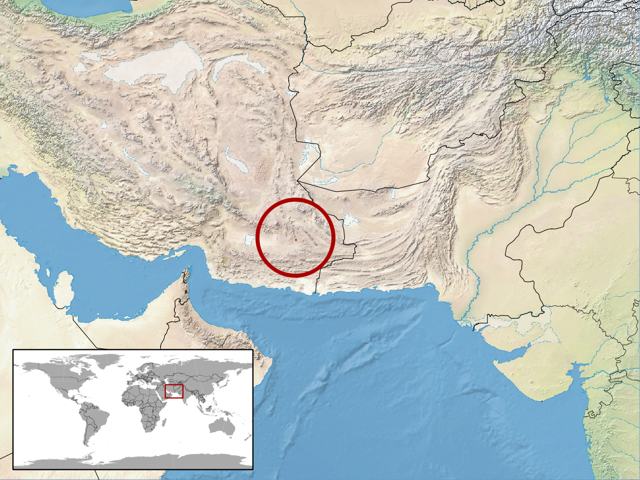 geographic distribution of Ophiomorus streeti